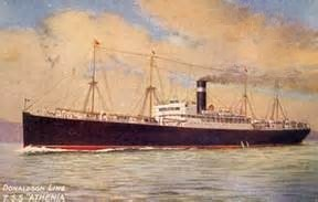 Postcard of the "SS Athenia" (1903-1917) was the first "Donaldson Line" ship of that name to be torpedoed and sunk off Inishtrahull, by a German submarine (SM U-53); her namesake the SS Athenia, was similarly attacked in 1939.